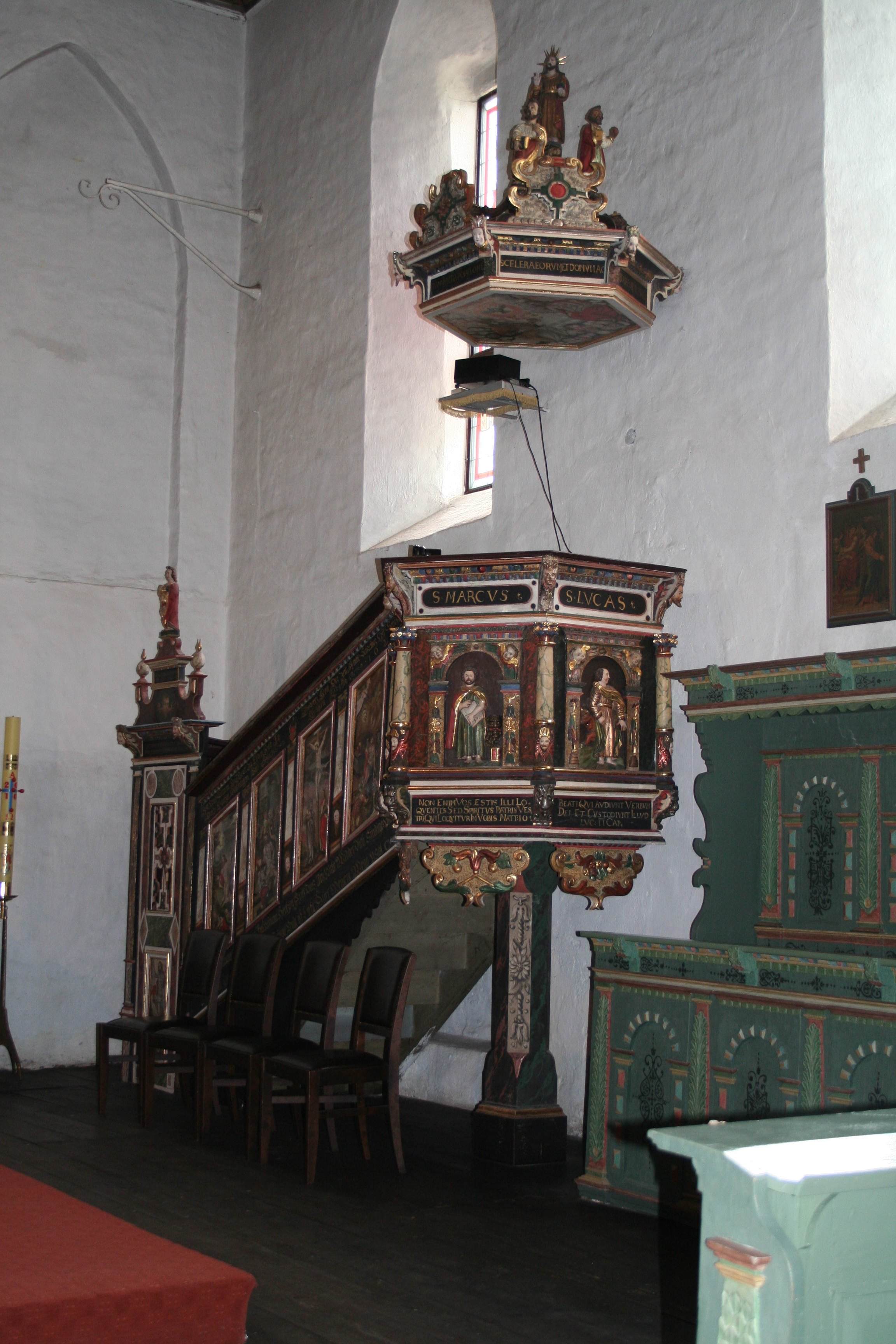 Holy Cross church in Szestno